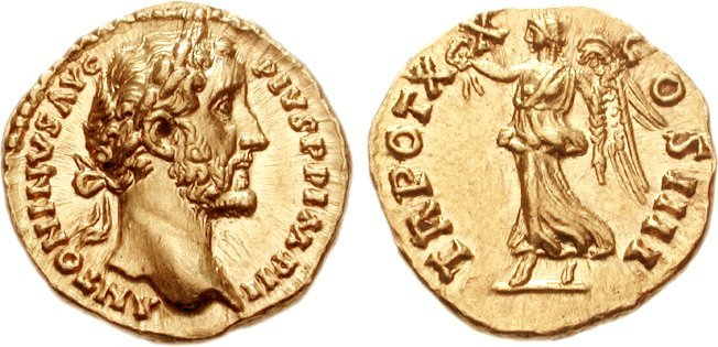 Antoninus Pius. AD 138-161. AV Aureus (7.39 g, 5h). Rome mint. Struck AD 156-157. ANTONINVS AVG PIVS P P IMP II, laureate head right / TR POT X-X COS IIII, Victory advancing left, holding wreath in right hand, cradling palm frond in left arm. RIC III 266a; Strack 316; Calicó 1675; BMCRE 887-8.